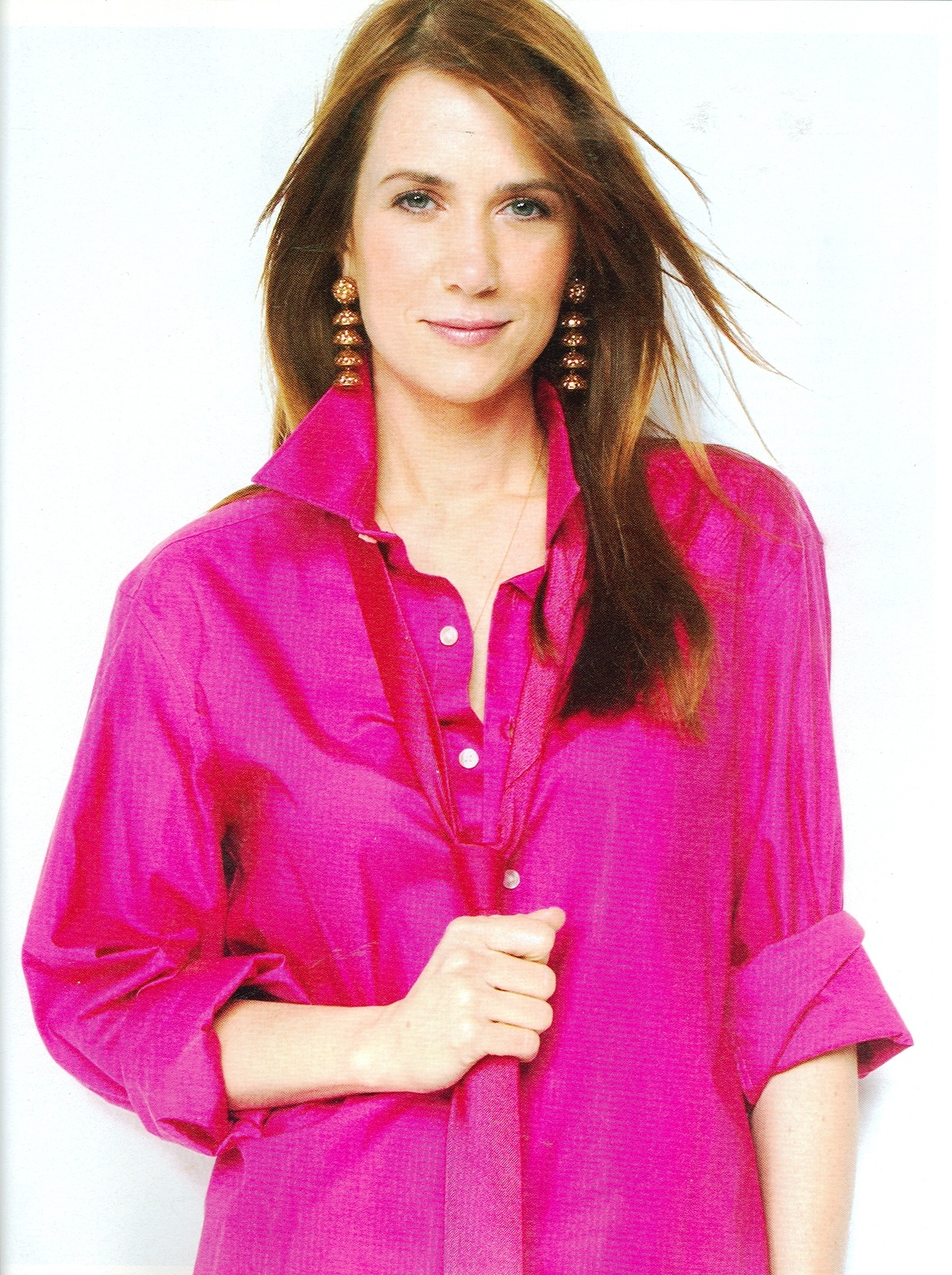 This is a portrait of Kristen Wiig wearing a pink shirt and tie, which ran in Paper Magazine's April 2009 Issue